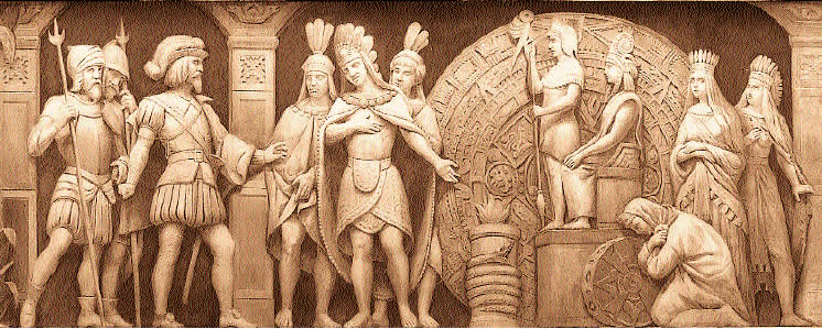 "Cortez and Montezuma at Mexican Temple" - The Spaniard Hernando Cortes, conqueror of Mexico, enters the Aztec temple. He is welcomed by Emperor Montezuma II, who thought Cortez was a god. The calendar stone and idols are based on sketches that Brumidi made in Mexico City.